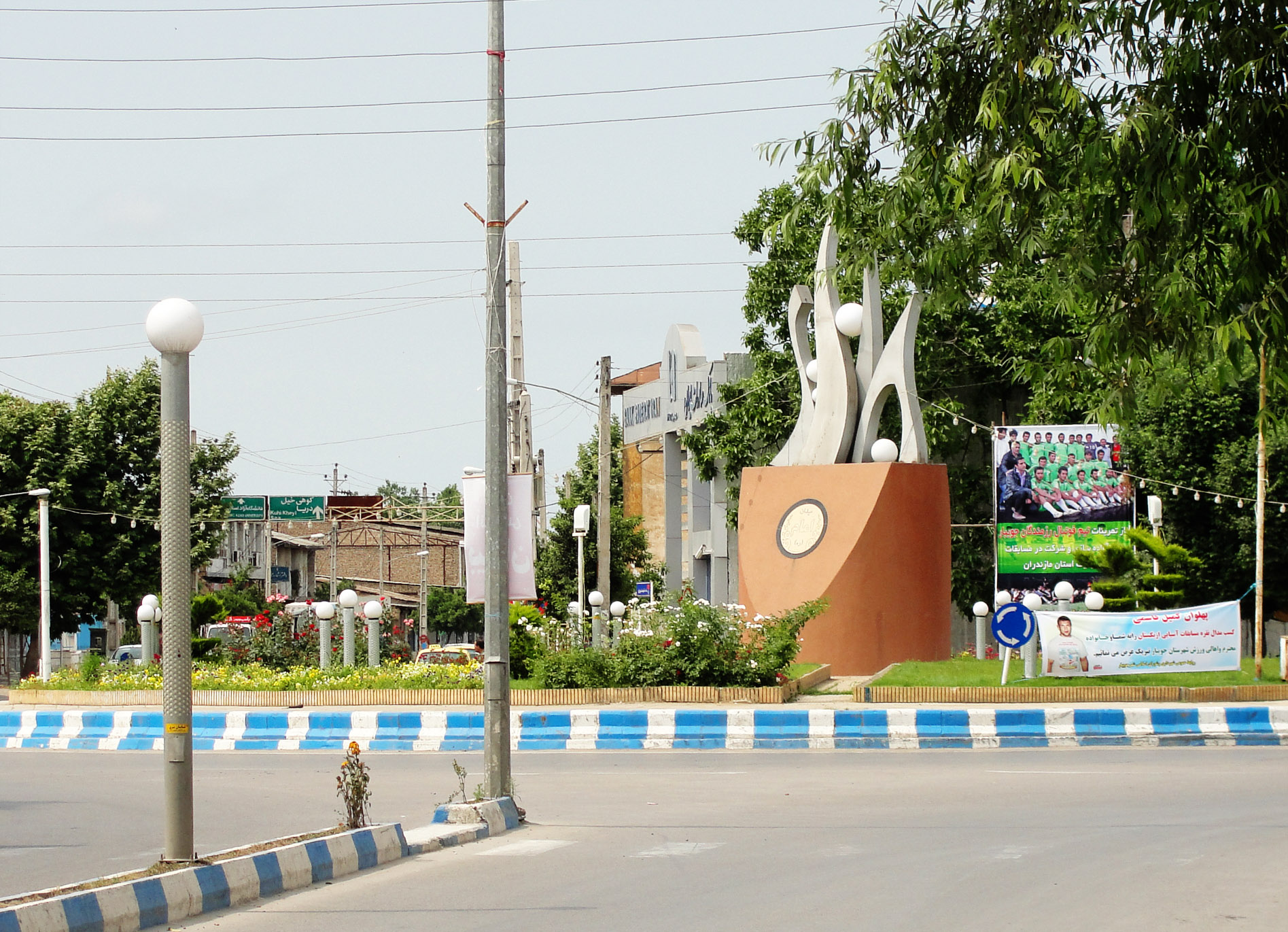 Central Square in Juybar (Emam Square)